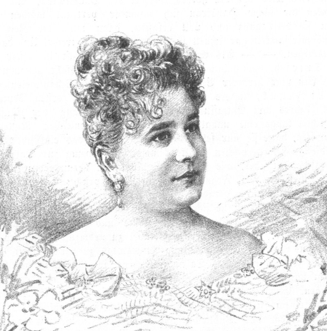 Portrait of Josephine Joseffy (1870-??), Austrian actress.